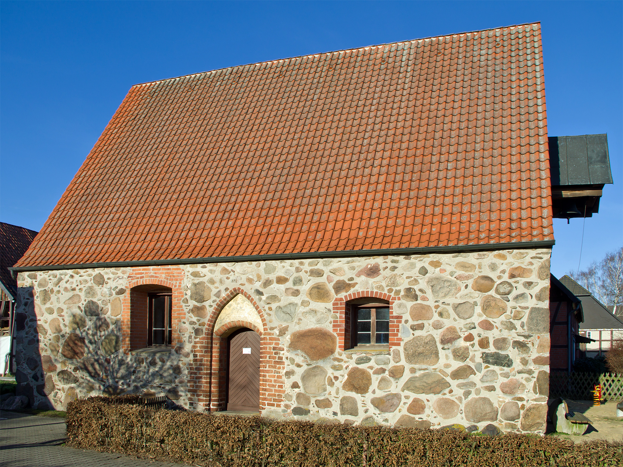 Chapel of the village Bockleben (district Lüchow-Dannenberg, northern Germany).